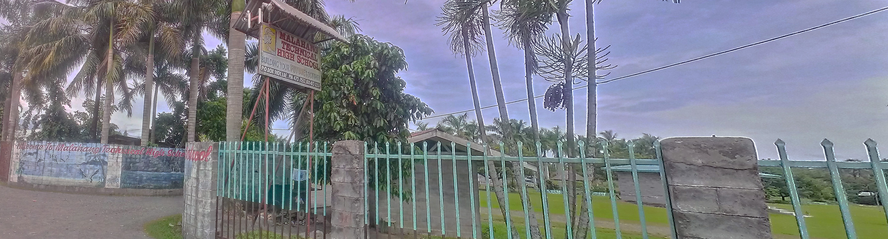 Photo of the front gate to Malahang Technical High school, Busu Rd, Malahang. Photo taken 29 January 2014